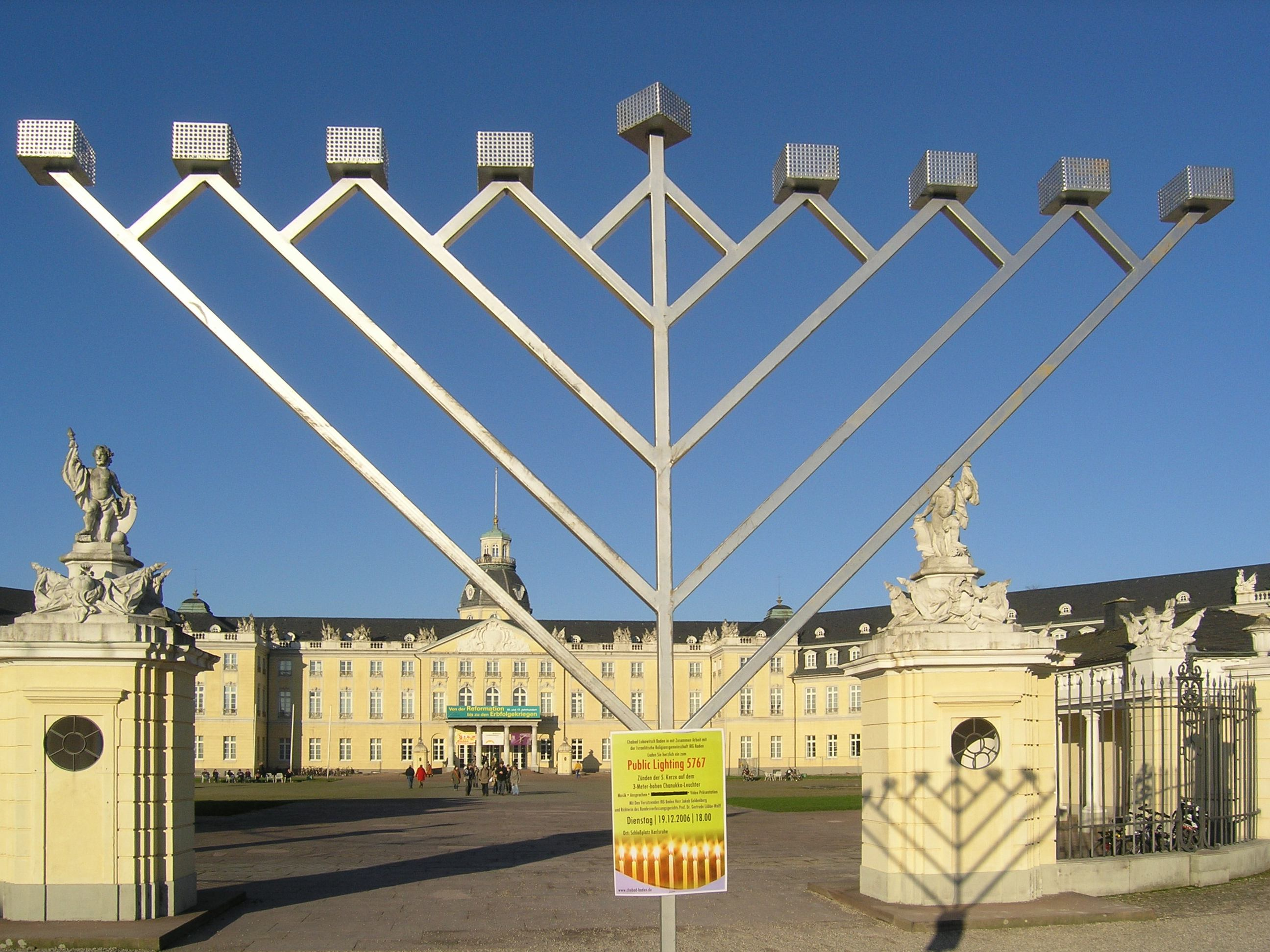 Lubavitch Hanukiah in front of Karlsruhe palace